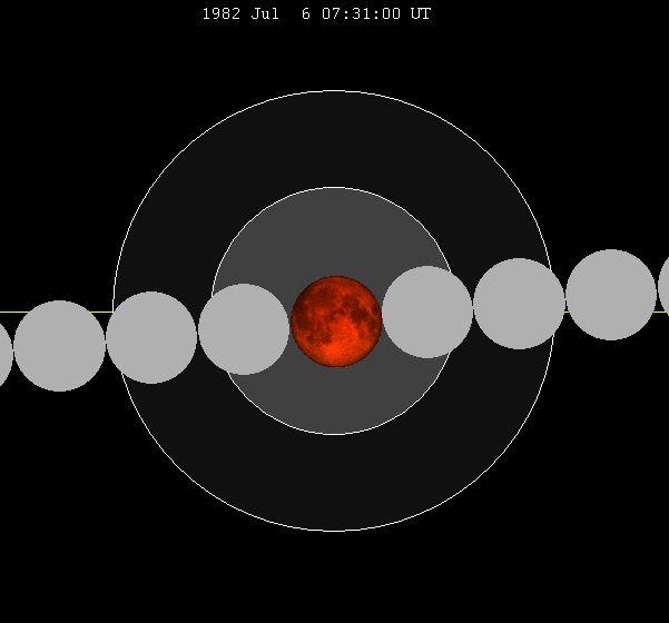 July 1982 lunar eclipse chart of moon's total lunar eclipse path through the earth's shadow. thumb